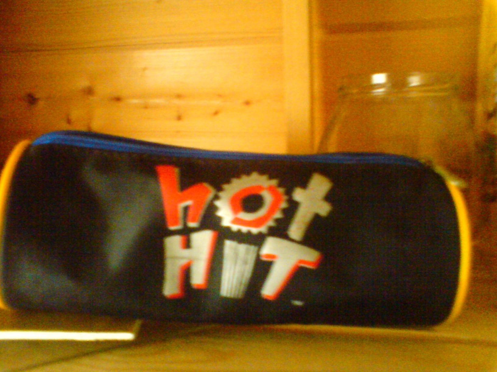 Finnish music program, Hot Hit of ancillary: pencil